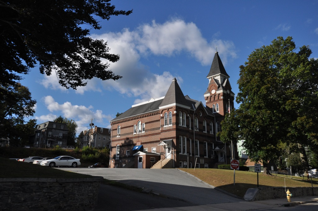 The former Putnam High School, now town hall, Putnam, Connecticut.